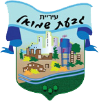 The coat of arms of the city of Givat Shmuel